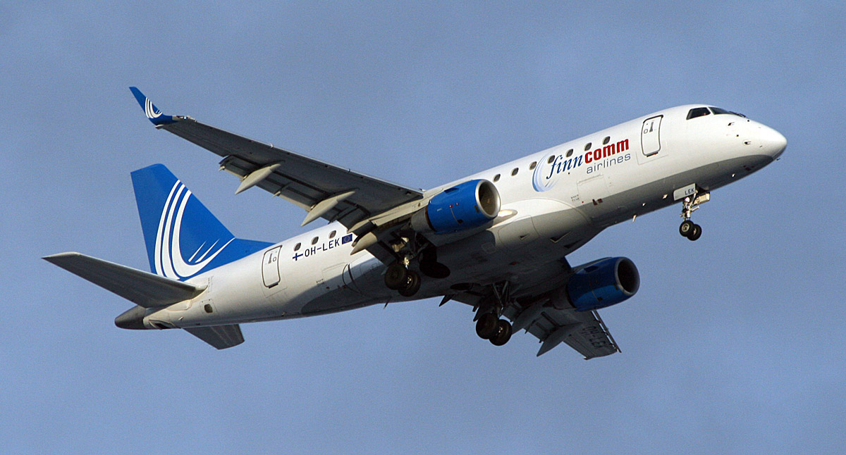 Finncomm Embraer ERJ-170 (OH-LEK) landing at Vilnius International Airport (VNO)